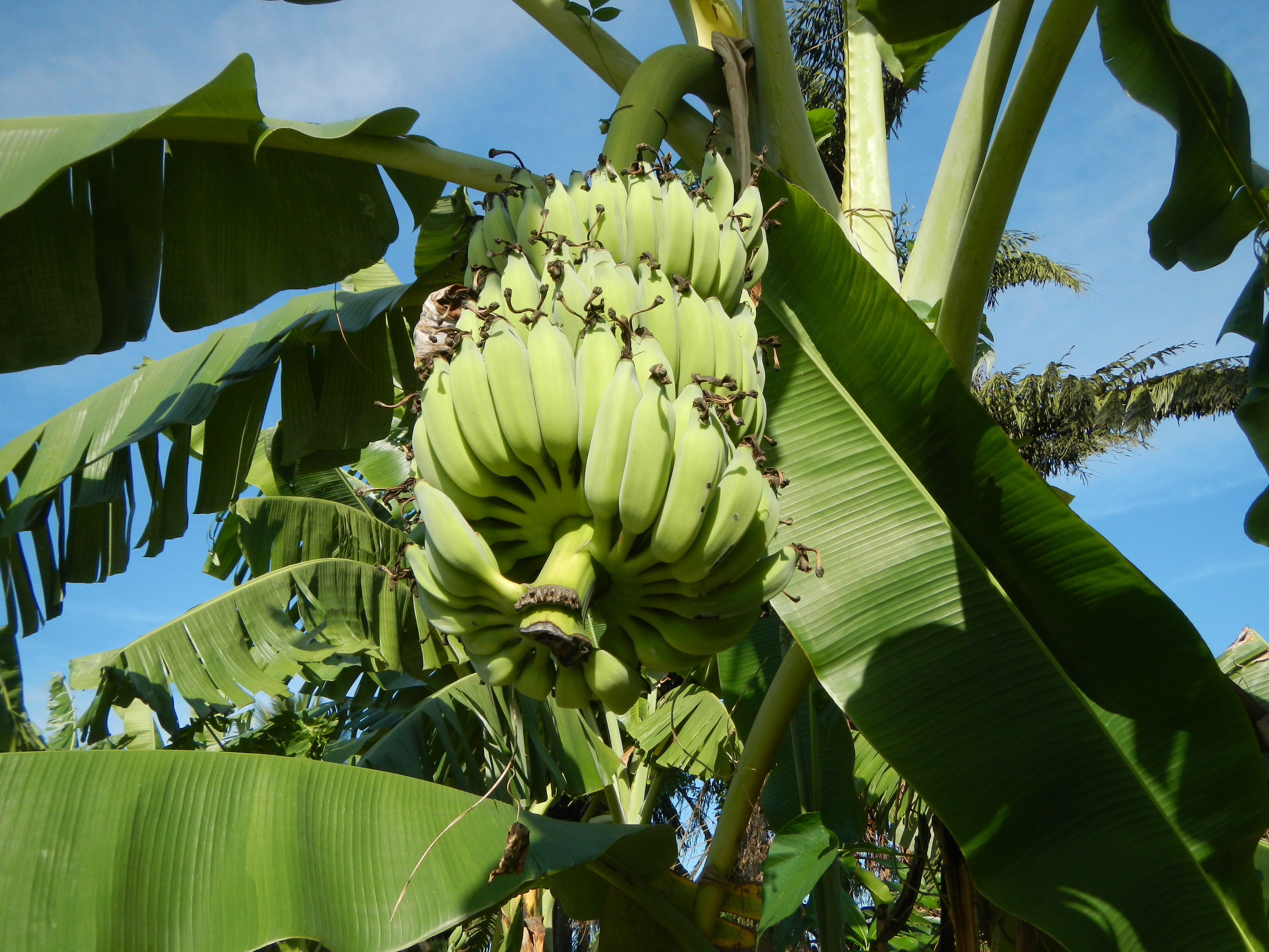 Bananas in the Philippines flowers, in Barangay Ocampo-Rivera District (Población), Jaen, Nueva Ecija Welcome Road-sign, Barangay Hall and the Jaen River with slope protection.